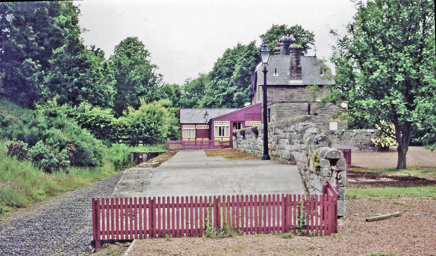 Former Ilderton station, converted to a restaurant, 2000. View NW, towards Wooler and Coldstream: ex-NER Alnwick - Wooler - Coldstream line, closed to passengers 22/9/30 but the line remained open from Alnwick for goods until 2/3/53. It is located right on the A697.